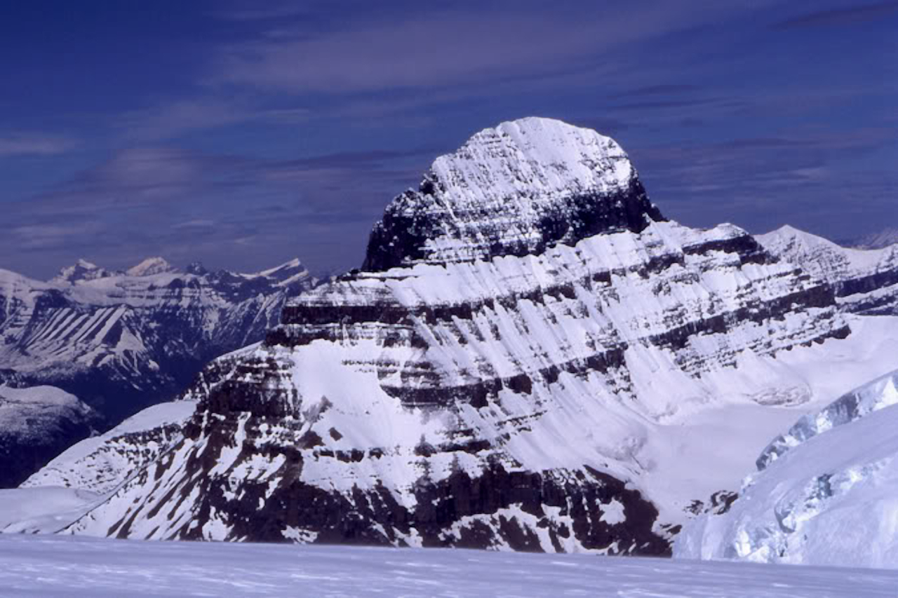 Mt. Alberta from Northern edge of Columbia Icefield, enroute to The Twins